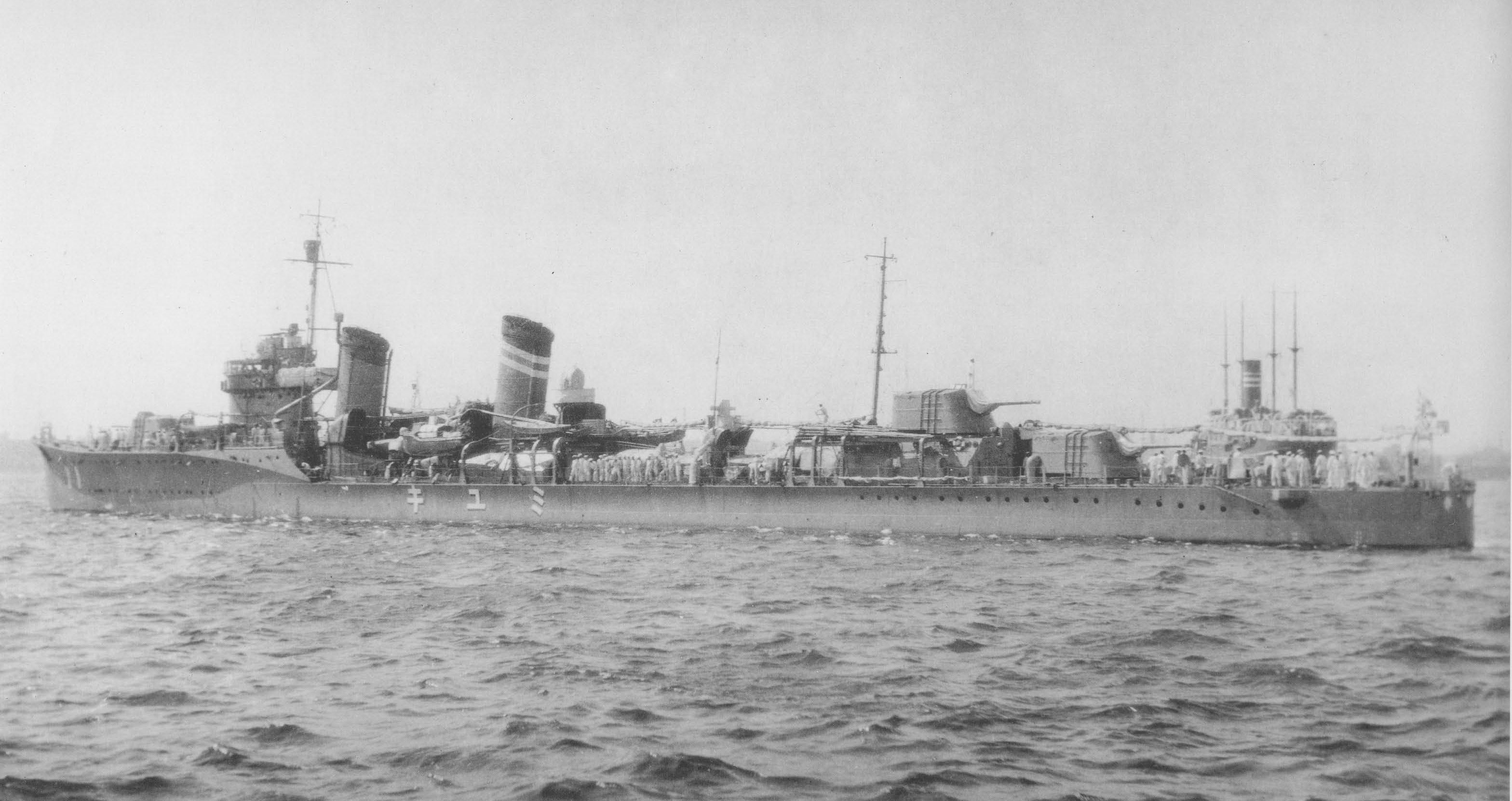 Imperial Japanese Navy destroyer Miyuki.